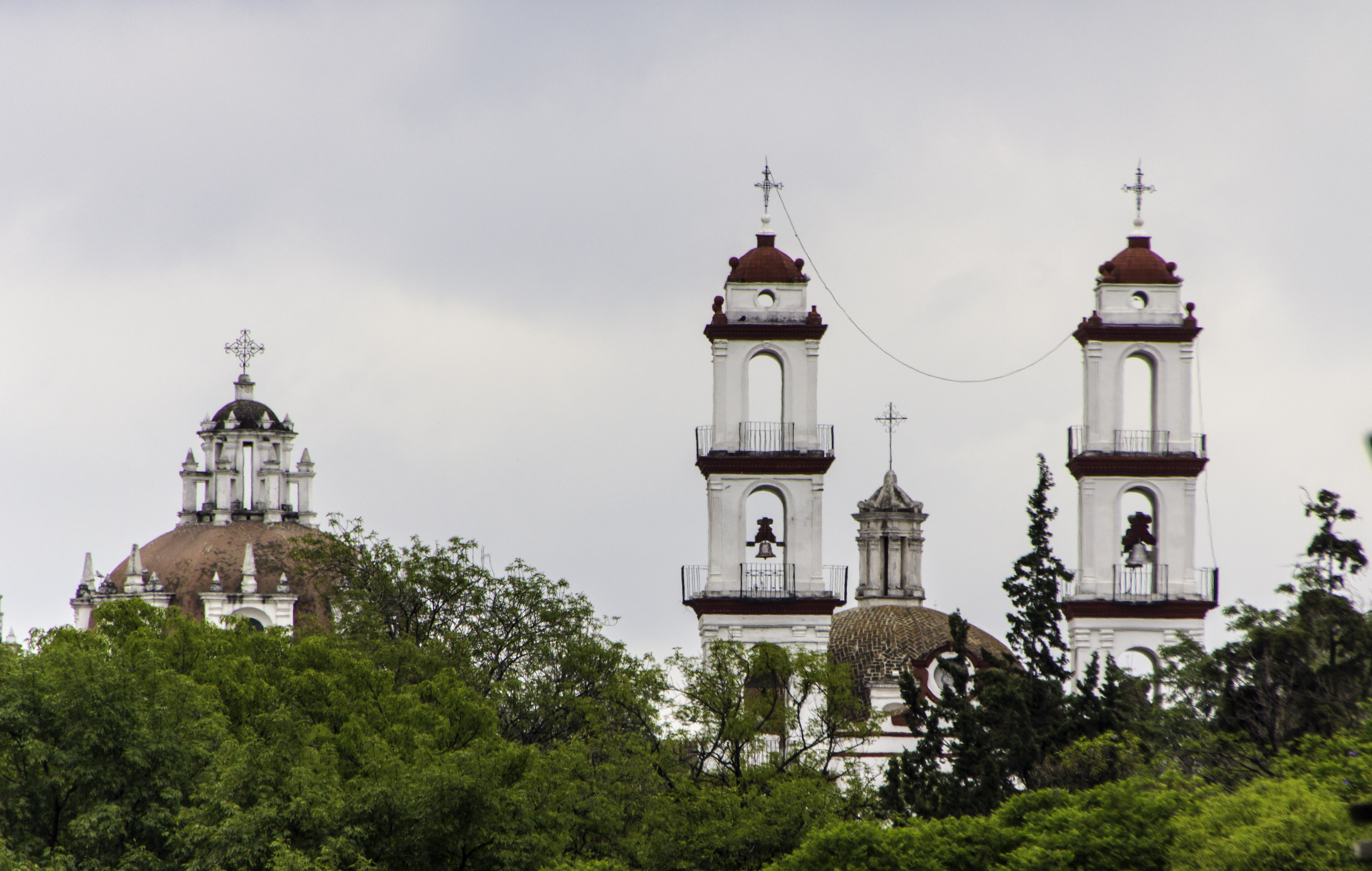 Church of Analco, Puebla